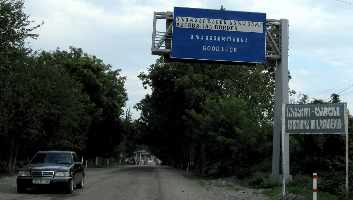 photos from georgia, as part of trip documented on